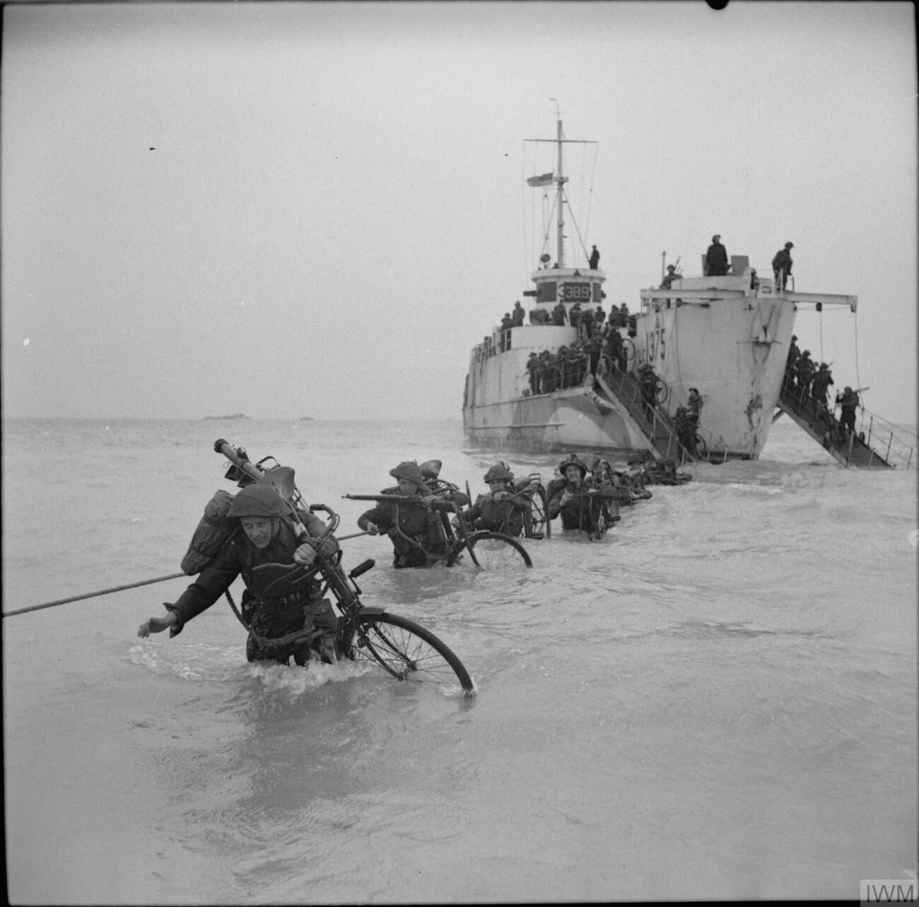 The British Army in the United Kingdom 1939-45 Troops wade ashore from landing ships during Exercise 'Fabius', 6 May 1944.